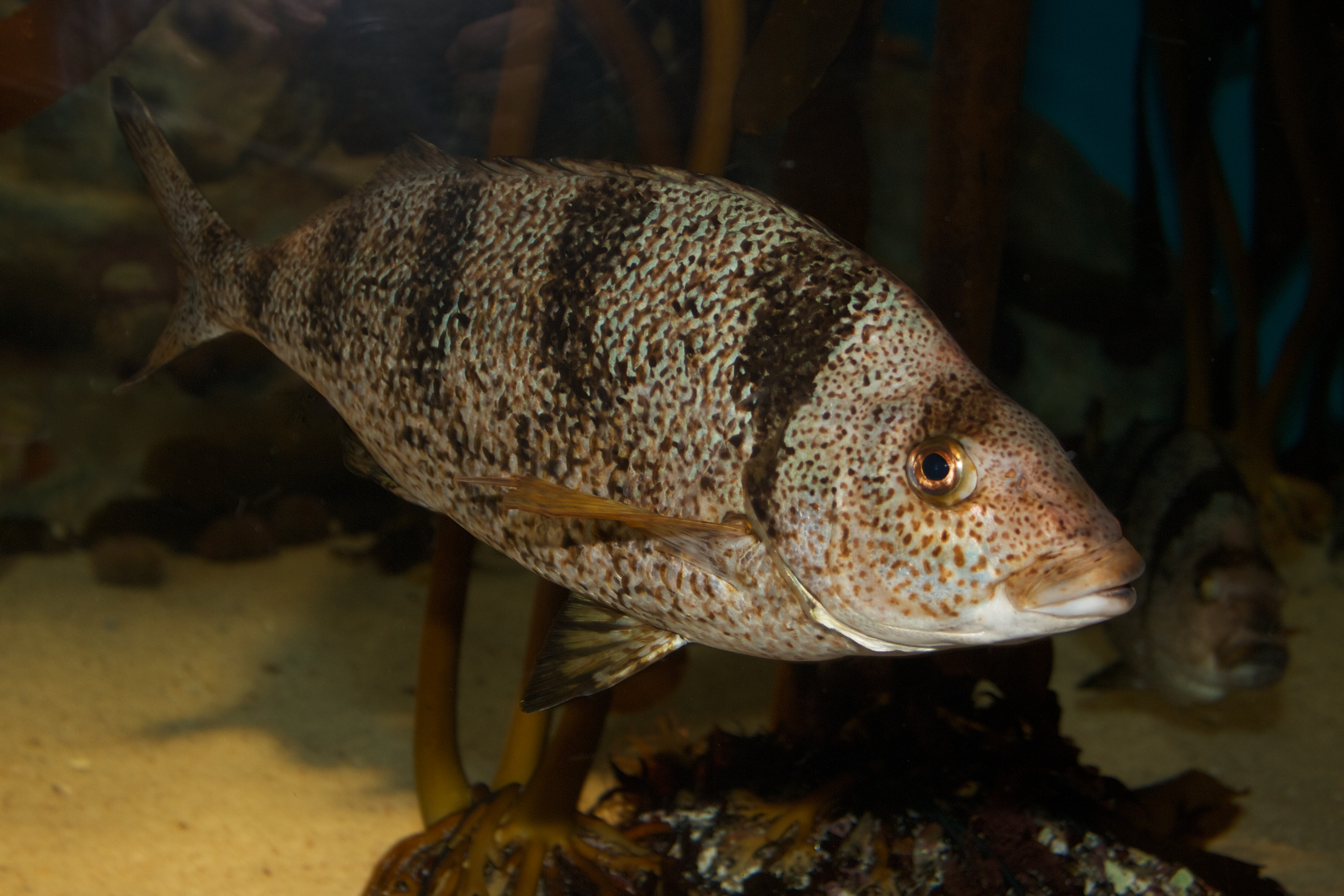 Nemadactylus monodactylus, Cape Town, South Africa